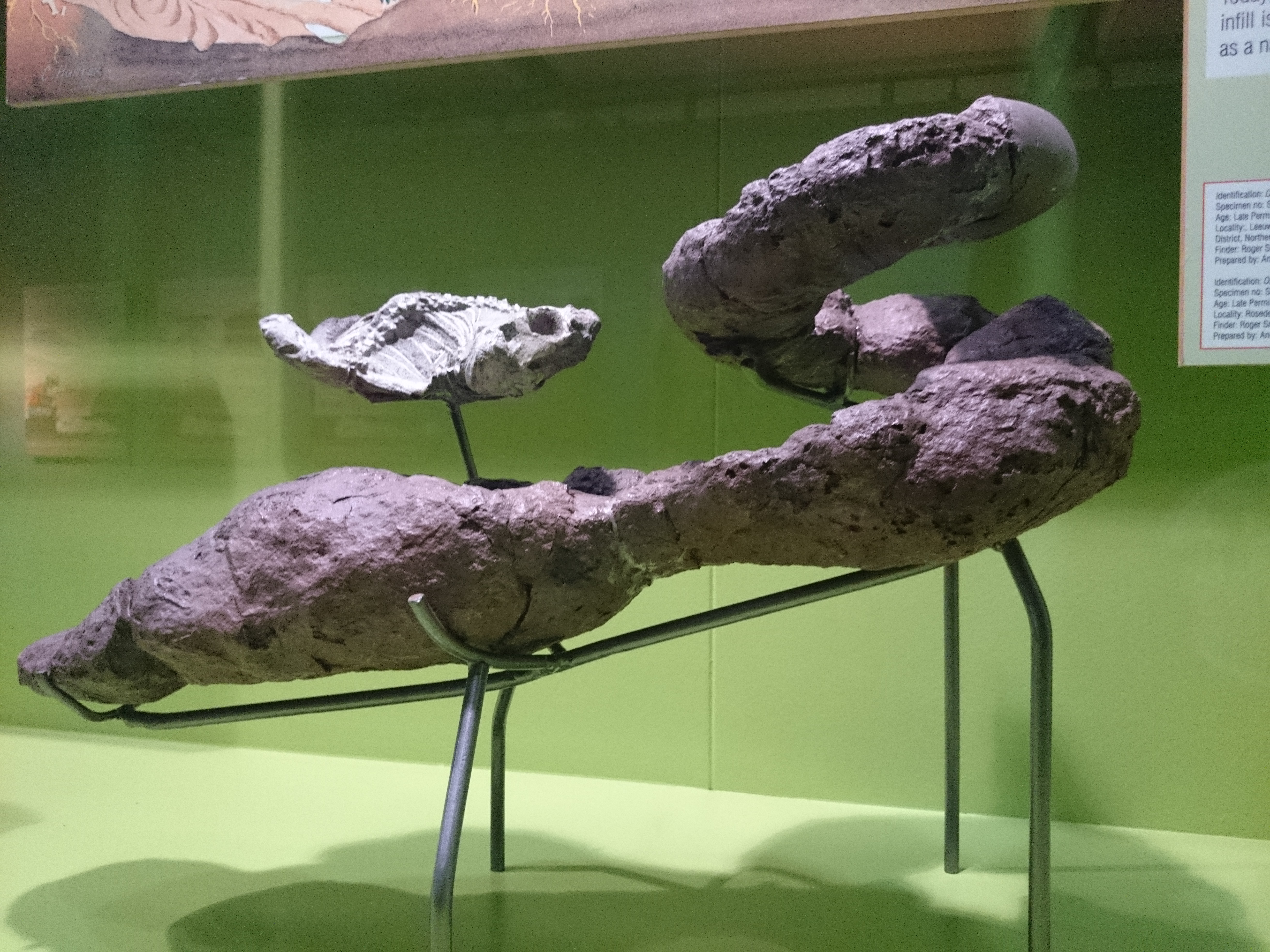 A natural cast of an underground burrow probably made by Diictodon. Several of these unusual spiral burrows are found together in what was formerly a community or 'township'. Very rarely curled-up skeletons of dicynodonts, like this one, have been found in the terinal chamber. Scratch marks on the outside of the burrow cast match up with Diictodon's claws and tusks. They tunnelled into the dry floodplain soils and deliberately used their left leg more than their right leg so that the tunnel spiralled down ina clockwise direction. After two complete turns they were usually deep enough to excavate a terminal chamber that was just big enough to turn around in.